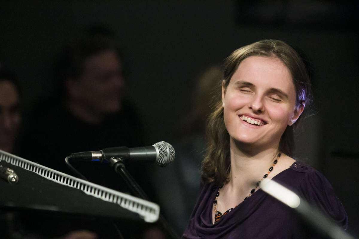 Rachel Flowers playing with the Taylor Eigsti Trio at the Blue Whale